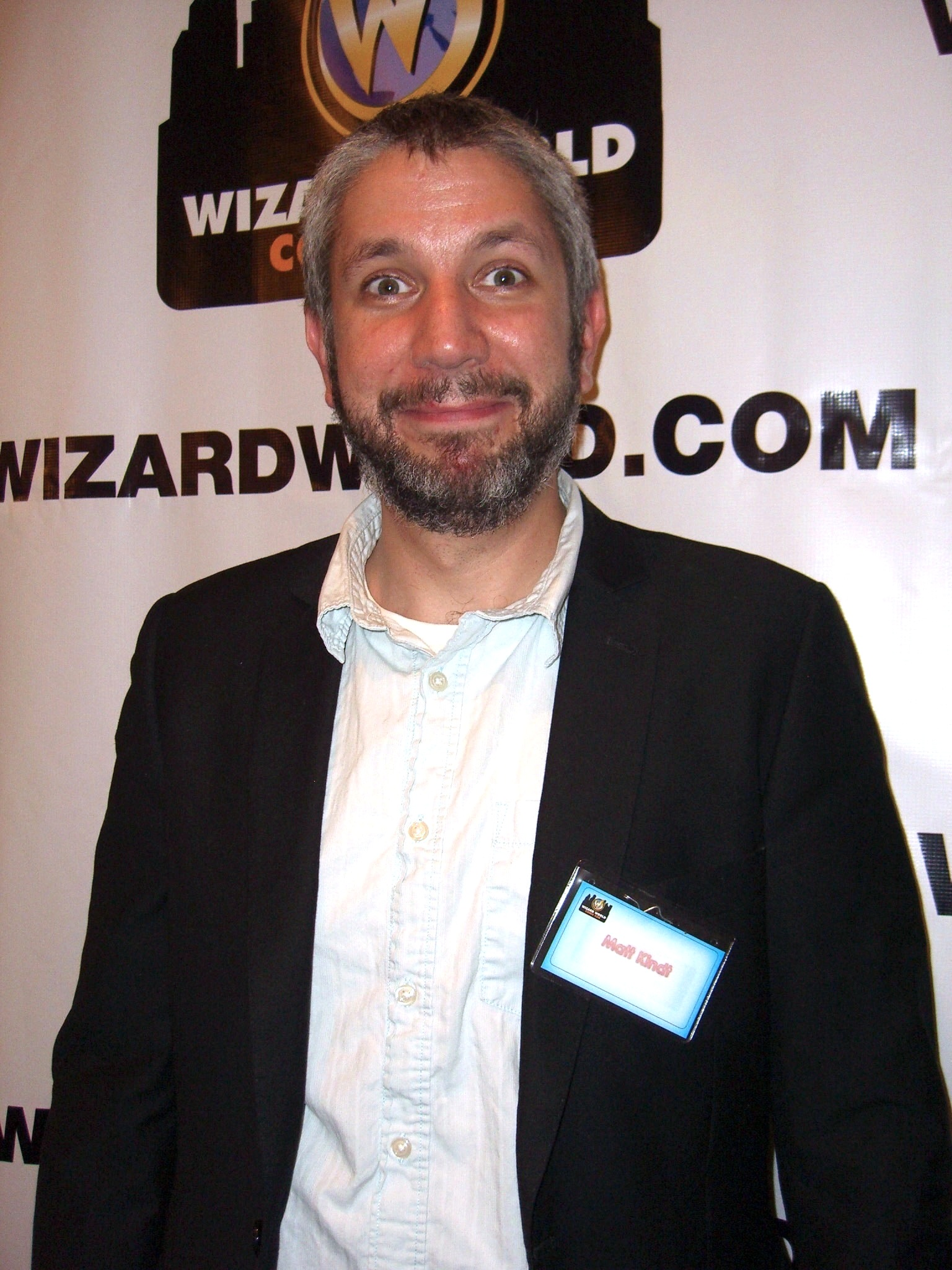 Comics creator Matt Kindt at the Big Apple Convention in Manhattan, May 21, 2011. Photographed by Luigi Novi. This photo is not in the public domain. It may, however, be used, modified and published for any purpose, free of charge, only if the photographer is properly credited, either by linking the photograph to this page, or with an easily visible credit to the photographer placed near the photo in each instance in which it is used. (See licensing information below.) Publication of this photo without this proper attribution constitutes copyright infringement. If you have any questions, you can contact me on my Wikipedia Talk Page.